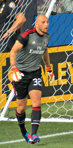 Christian Abbiati played in Milan in 2012.